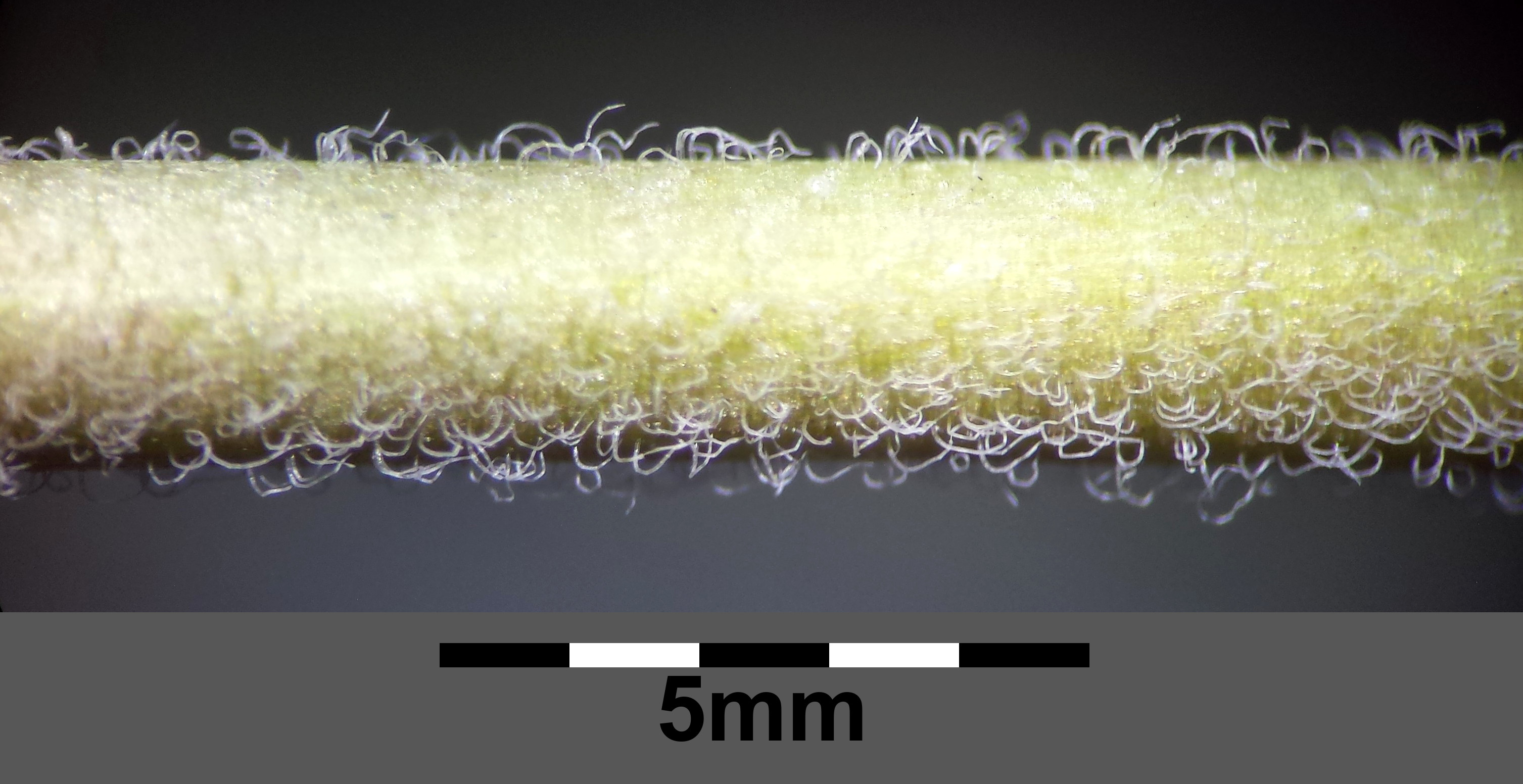 Stipe with adjacent hairs Taxonym: Veronica teucrium ss Fischer et al. EfÖLS 2008 ISBN 978-3-85474-187-9 Location: Steinberg near Niederhollabrunn, district Korneuburg, Lower Austria - ca. 375 m a.s.l. Habitat: semi-dry grassland